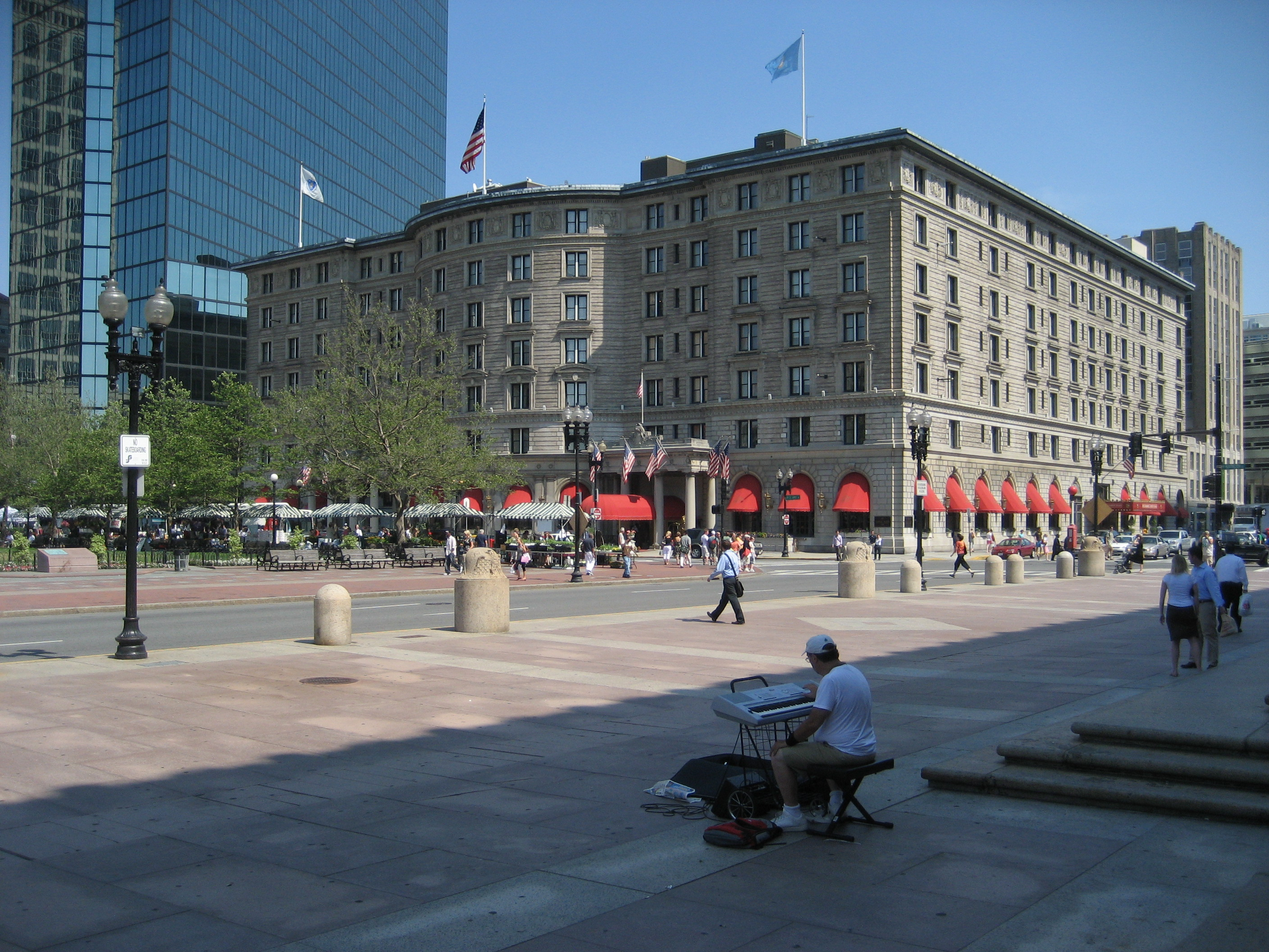 Boston Massachusetts: Copley Square. Street musician with keyboard in front of Library. View looking towards Copley Plaza Hotel.